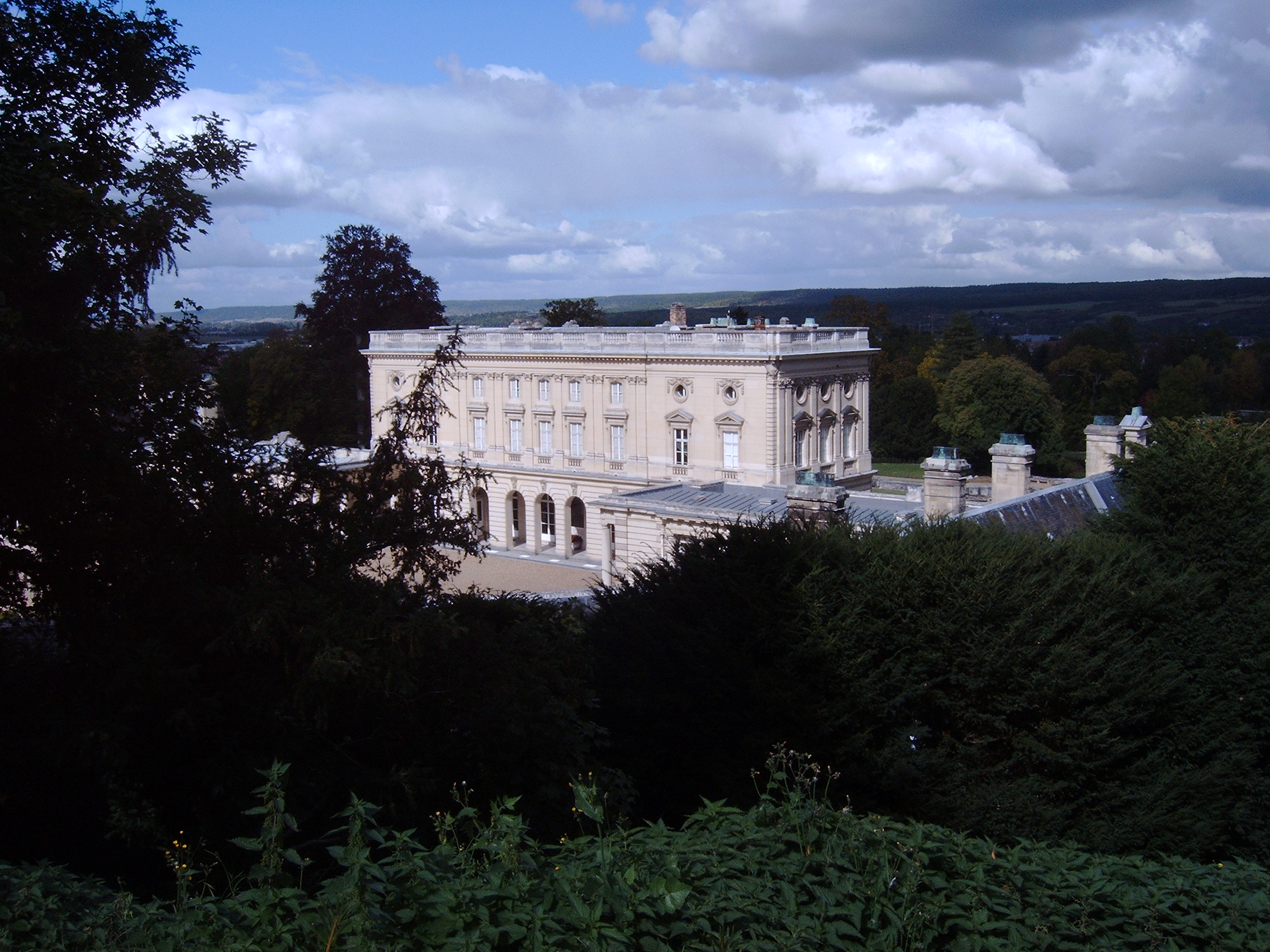 Château de Bizy, Vernon, Haute-Normandie.